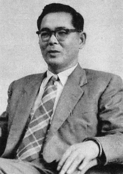 Kusuo Kitamura